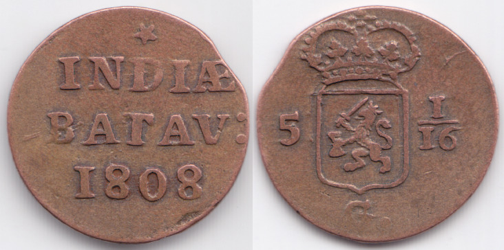 Coin 1 Duit, 1808, Dutch East Indies, times of the Batavian Republic. On the reverse is the inscription: 5 * 1/16 G, which means: "5 such coins are 116 guilders." Diameter 21.4-22.2 mm, weight - 3.1 g.